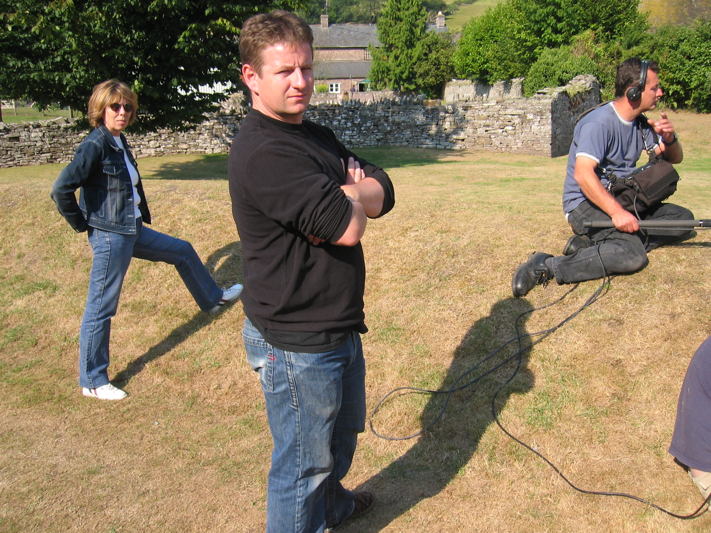 Welsh director Daf Palfrey (during the making of Historyonics)